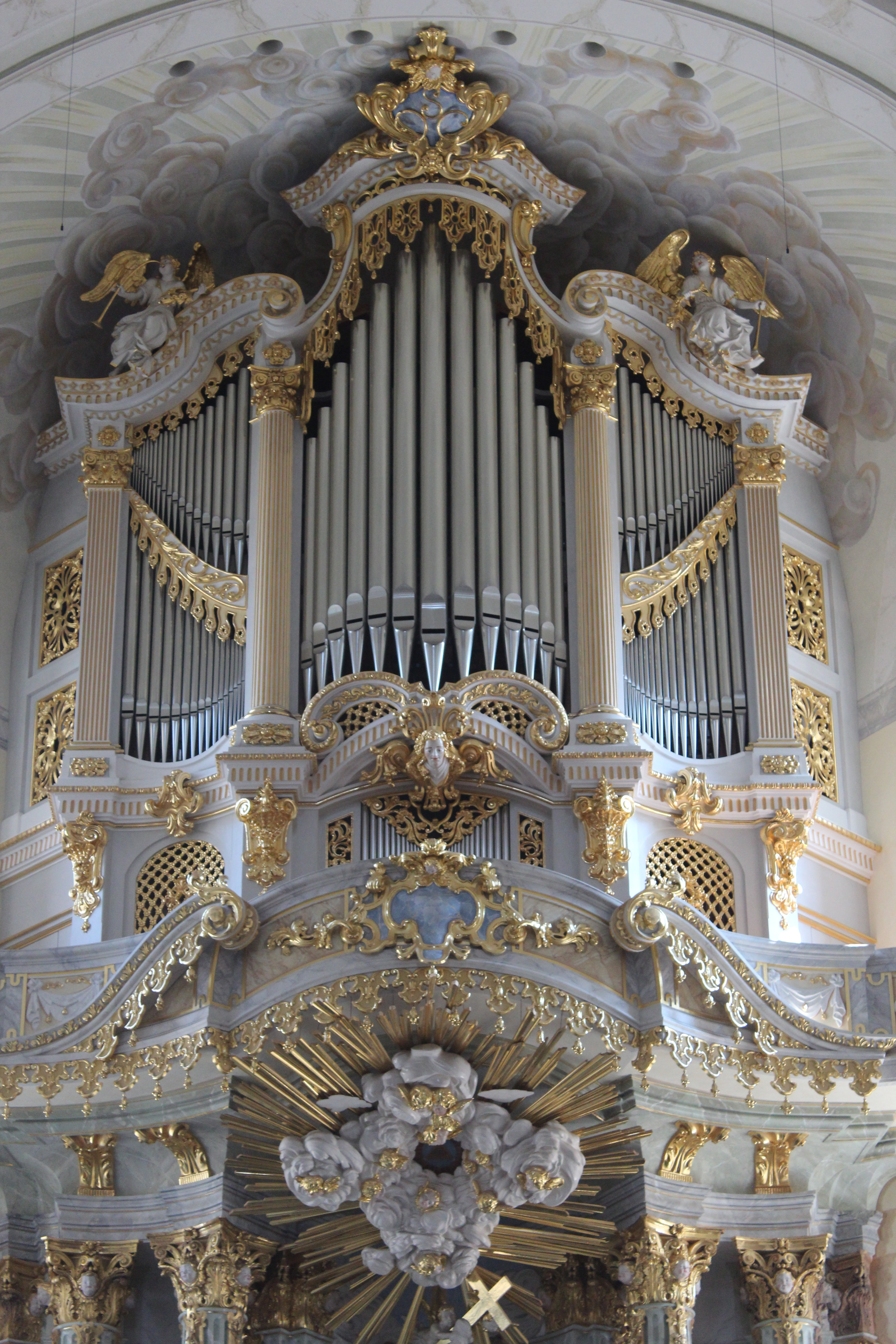 Pipe organ, Frauenkriche, Dresden